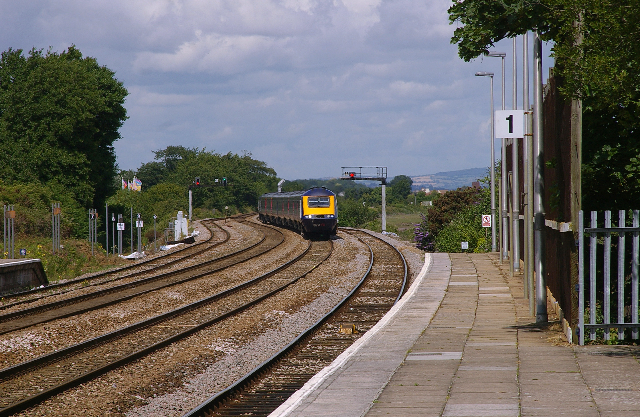 A First Great Western Intercity 125 (headed by 43189) passes through Dawlish Warren railway station without stopping, utilising the centre tracks.